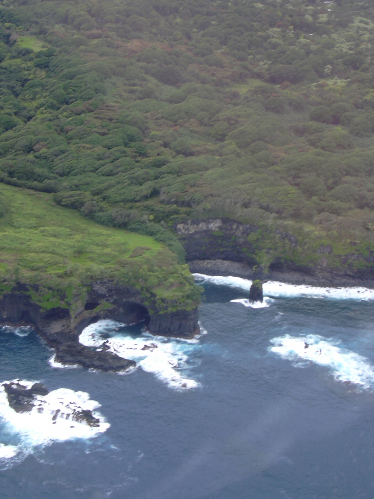 Piper aduncum (habitat). Location: Maui, Nahiku